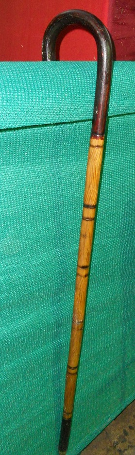 Walking stick made with bamboo cane